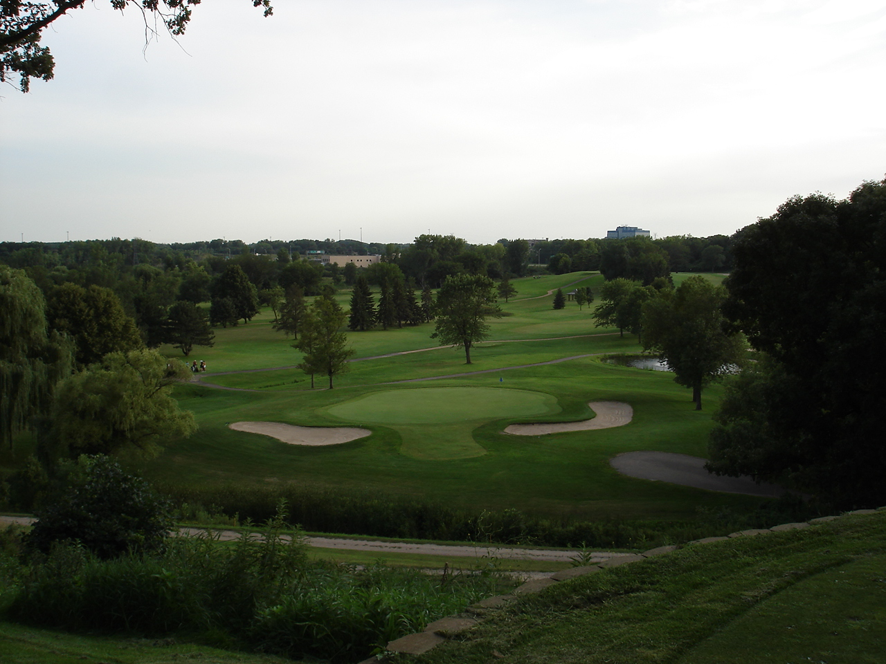 12th hole, Braemar Golf Course in Edina, Minnesota.